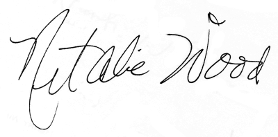 Signature of Natalie Wood